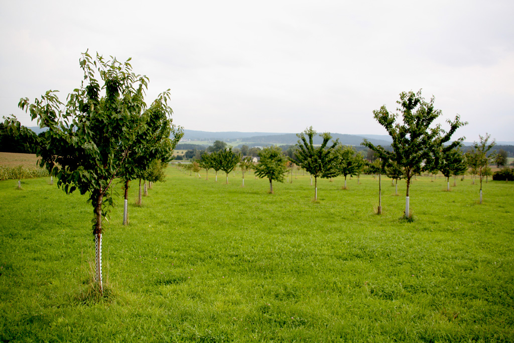 meadow with scattered fruit trees at Schweinsbach